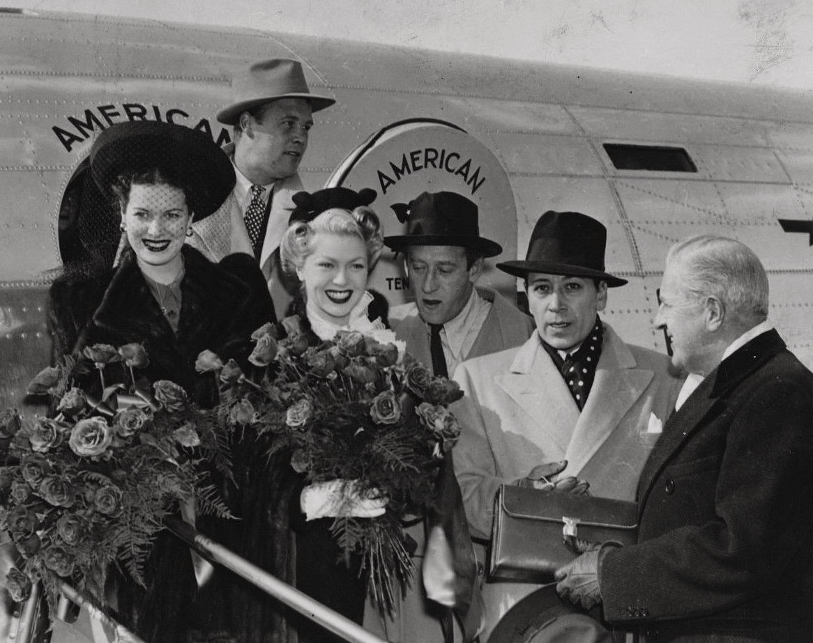 Maureen O'Hara, Wayne Morris, Lana Turner, Al Ritz, and George Raft arriving in Washington, D.C. for the president's birthday celebration